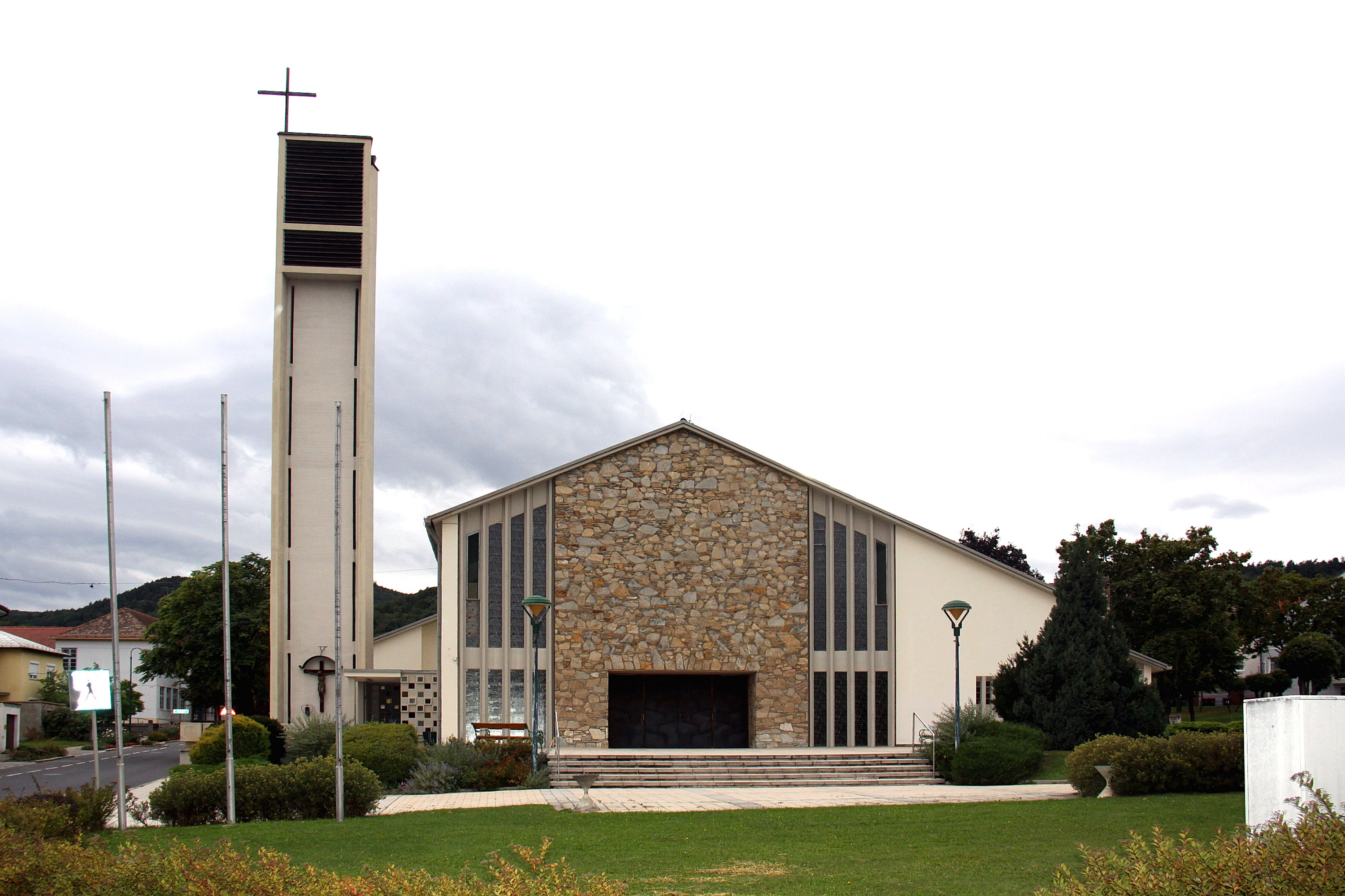 Parish church „Holy Spirit“ - Wiesen (Burgenland) Object location47° 44′ 22.11″ N, 16° 20′ 21.71″ E